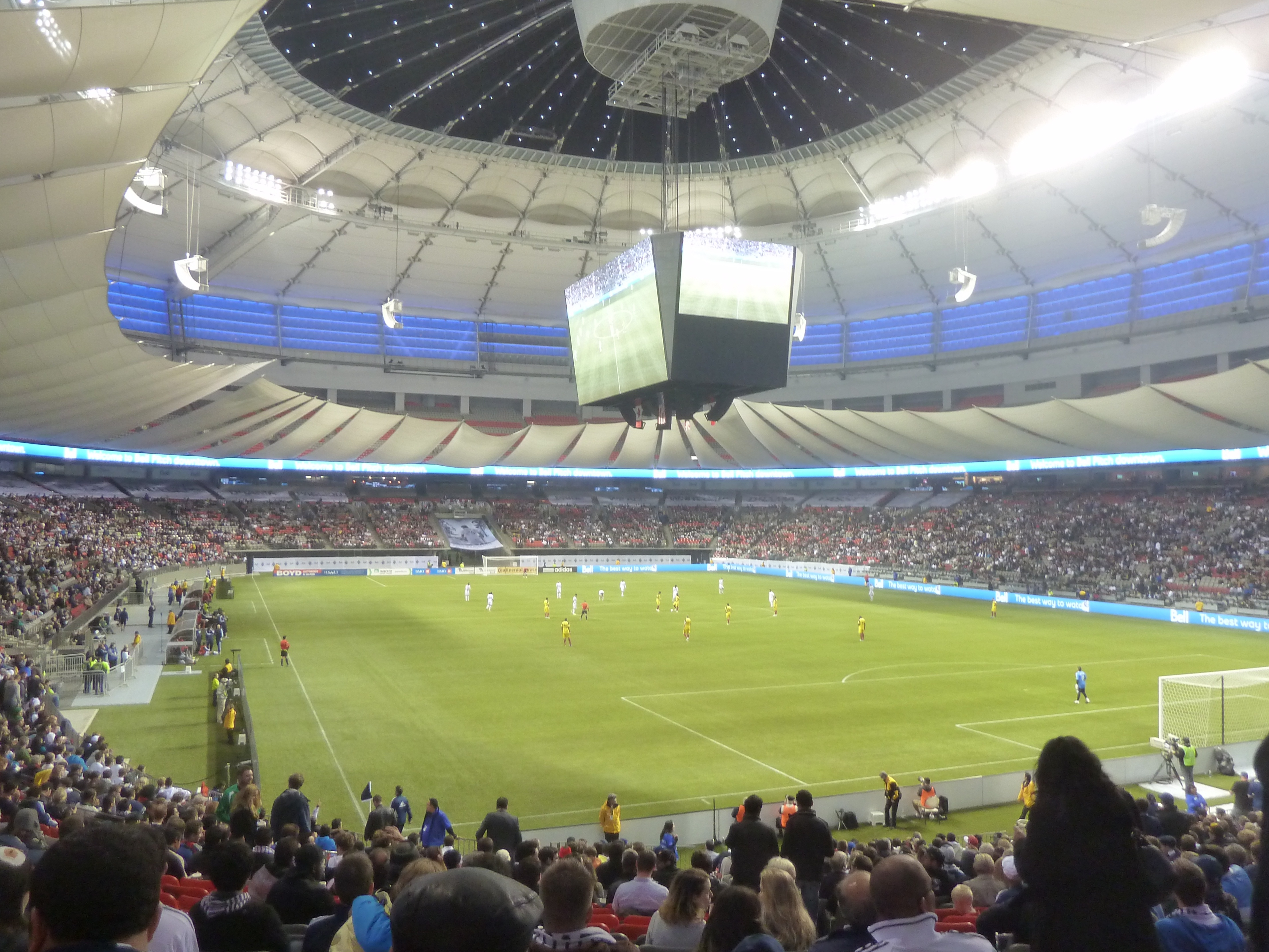 Van vs RSL, 6-Oct-2011